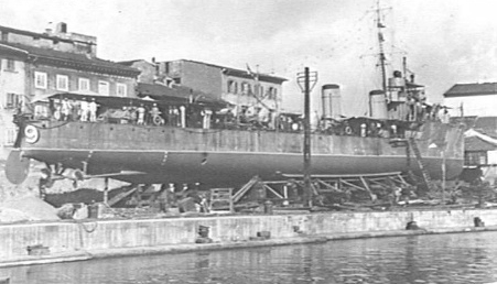 AWM caption : "Italy: Tuscany, Livorno. The destroyer HMAS Yarra at a dry dock in Italy. She was probably undergoing repairs after colliding with HMAS Huon on 8 August."